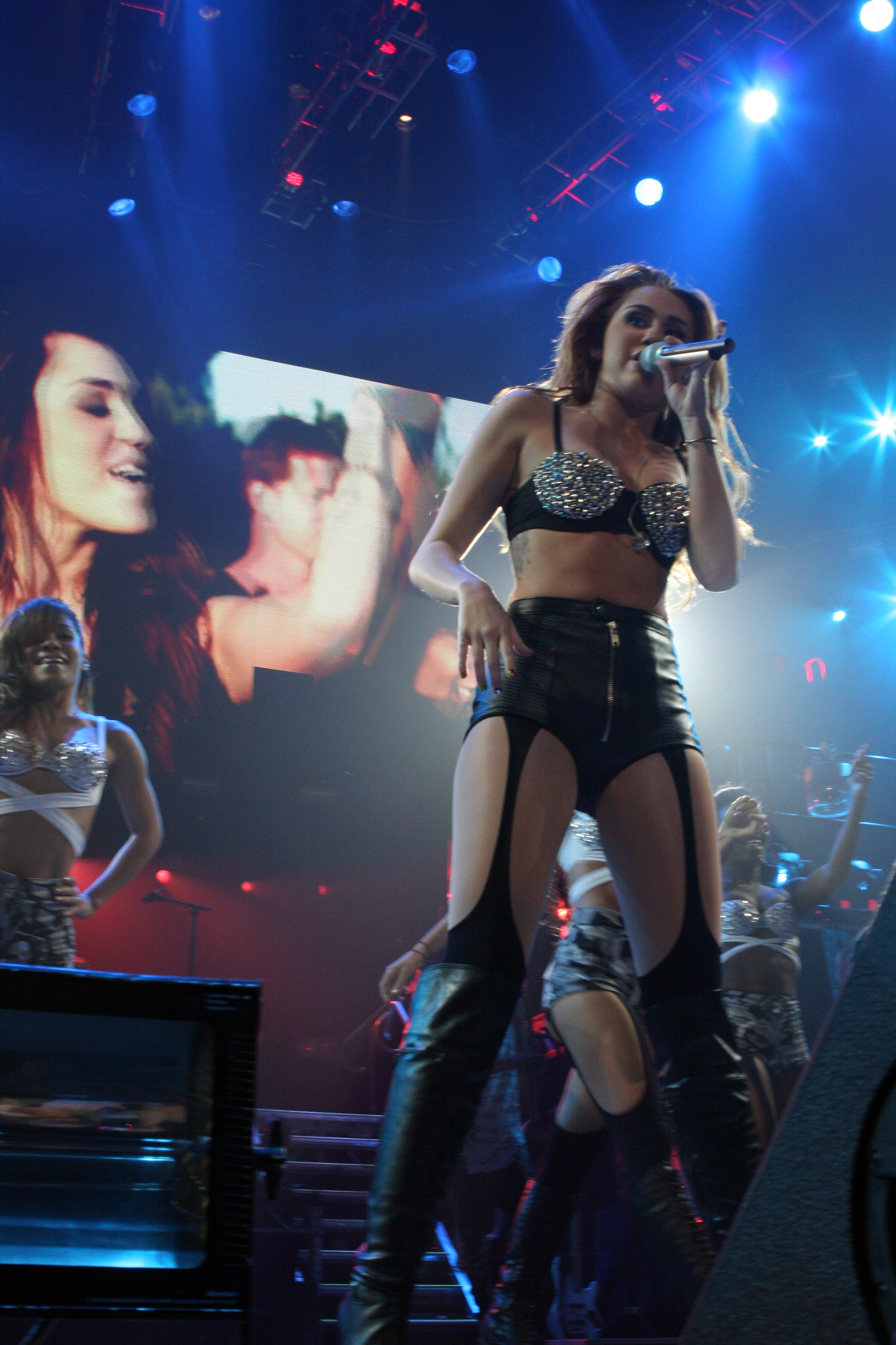 Pop singer Miley Cyrus performing in Sydney, Australia as part of her Gypsy Heart Tour.